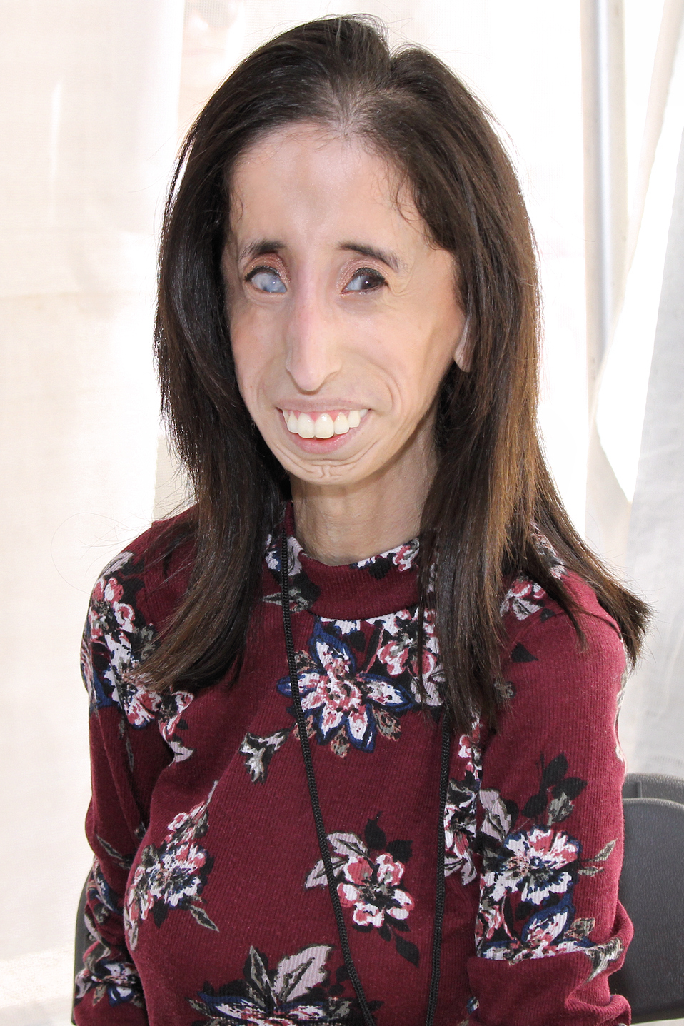 Motivational speaker and author Lizzie Velásquez at the 2017 Texas Book Festival.